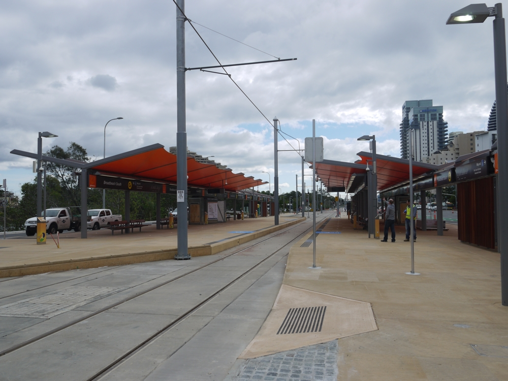 Gold Coast Light Rail (Goldlinq) - Broadbeach South Terminus